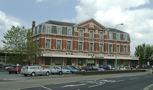 Newton Abbot railway station, Devon, England.